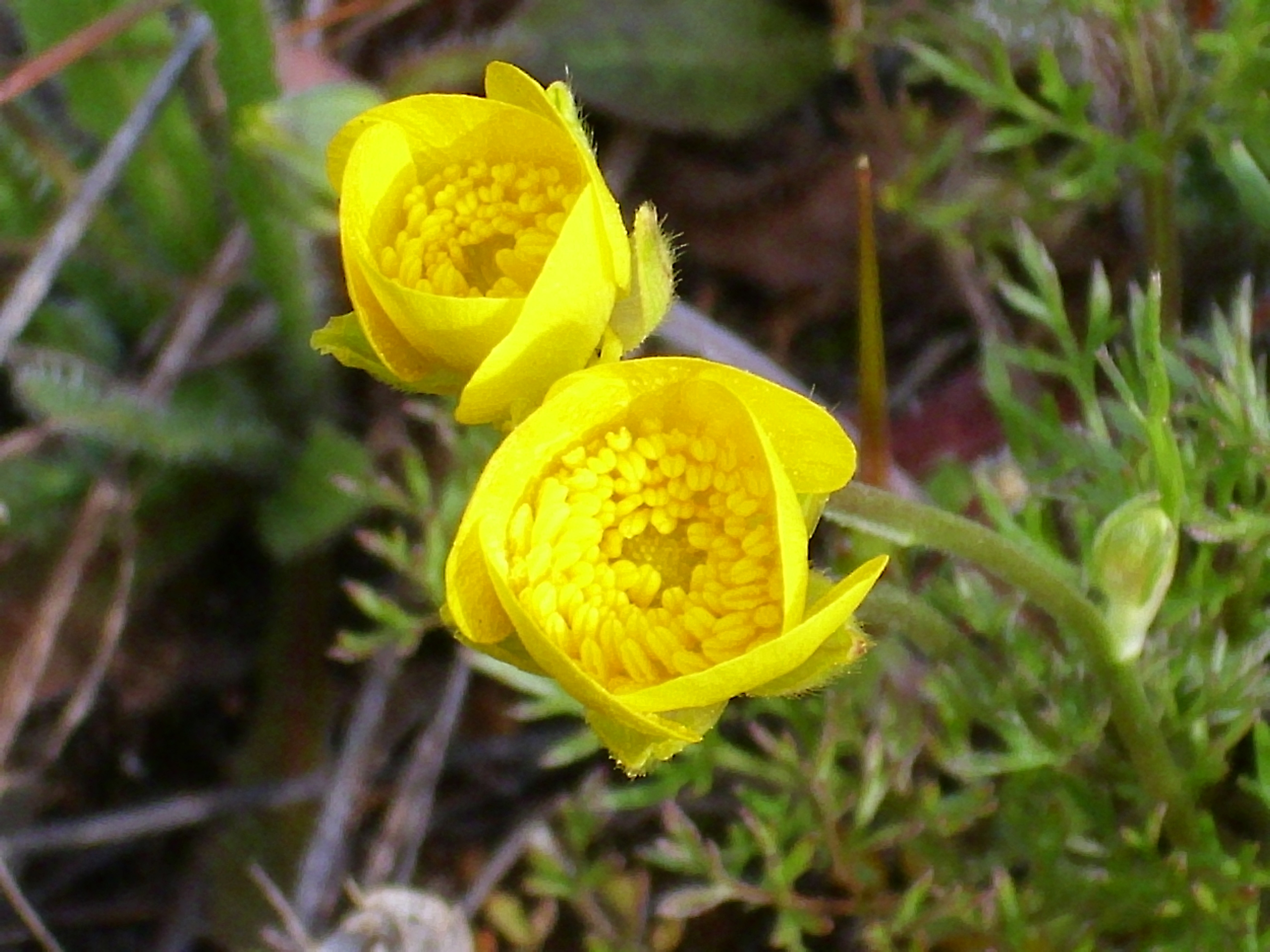 Sierra Morena (Sierra Madrona) Adonis microcarpa close up Spain This is a photography of a Special Area of Conservation in Spain with the ID: ES0000090. Natura2000 entry, EEA entry